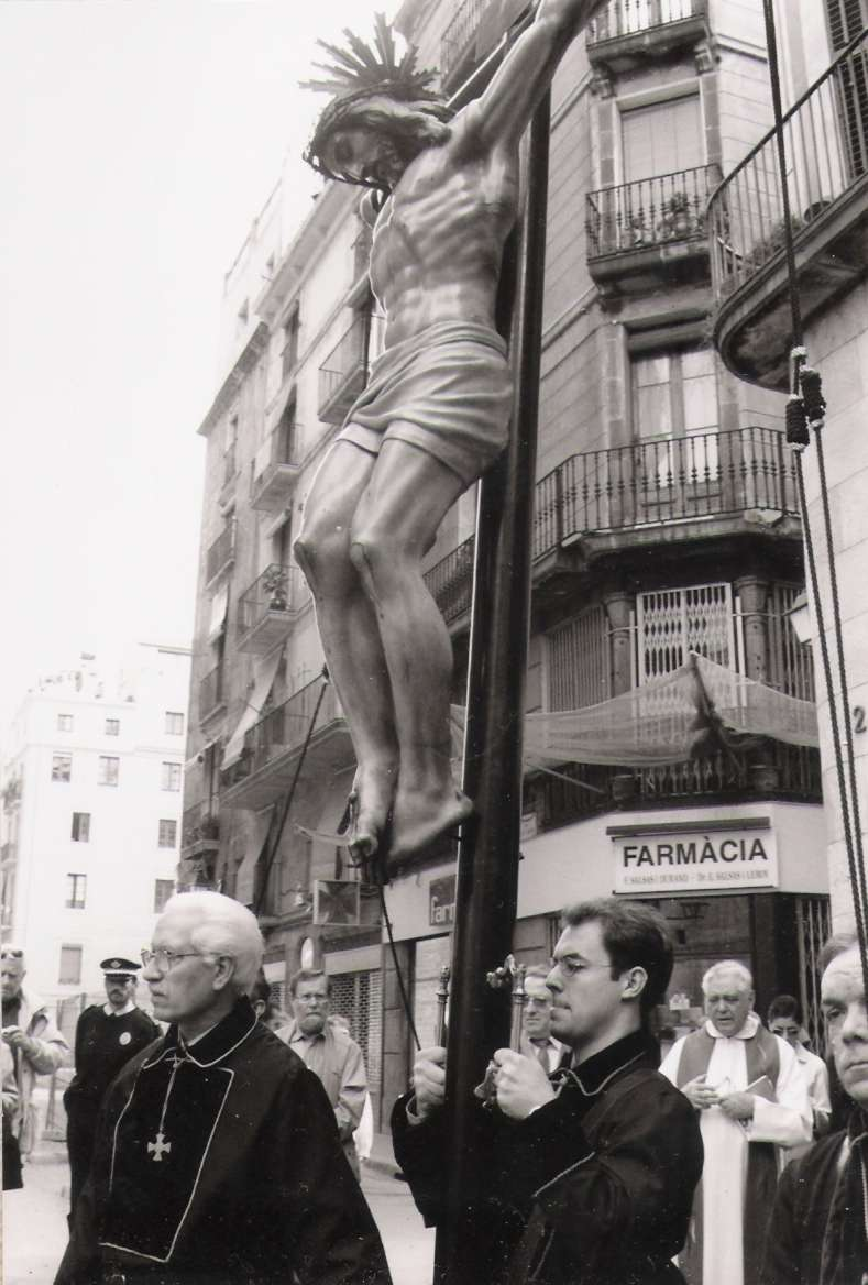 Cross Bearers in the Via Crucis of Holy Friday in Barcelona